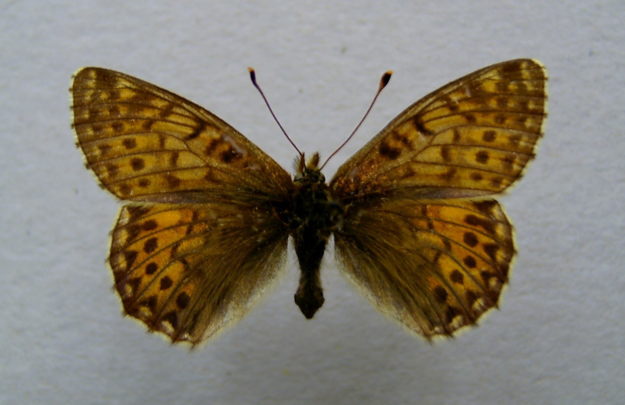 Boloria napaea